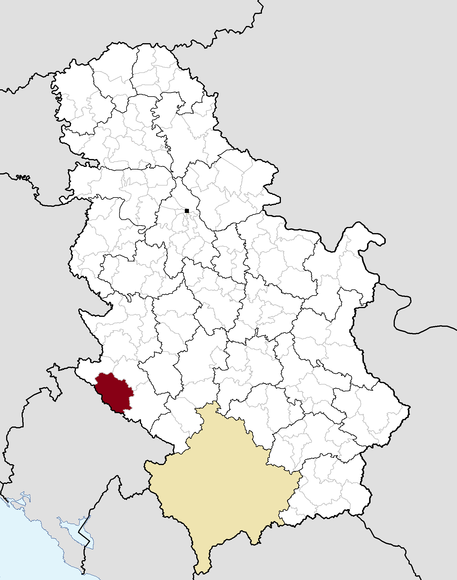 Municipal location in Serbia